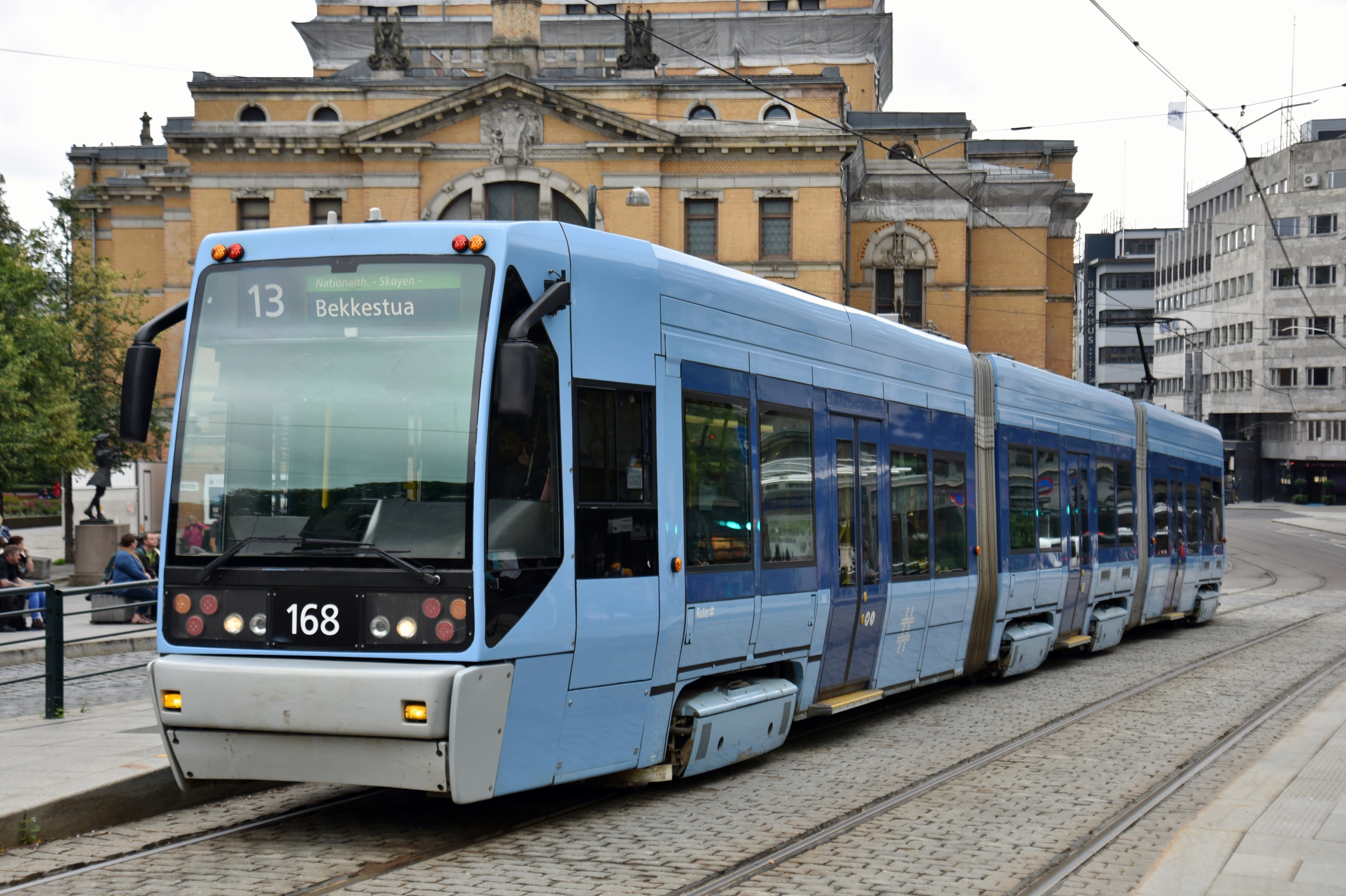 Sporveien Trikken SL95 tram no. 168 operating an Oslo tramway line 13 service at Nationaltheatret tram station, Oslo, Norway